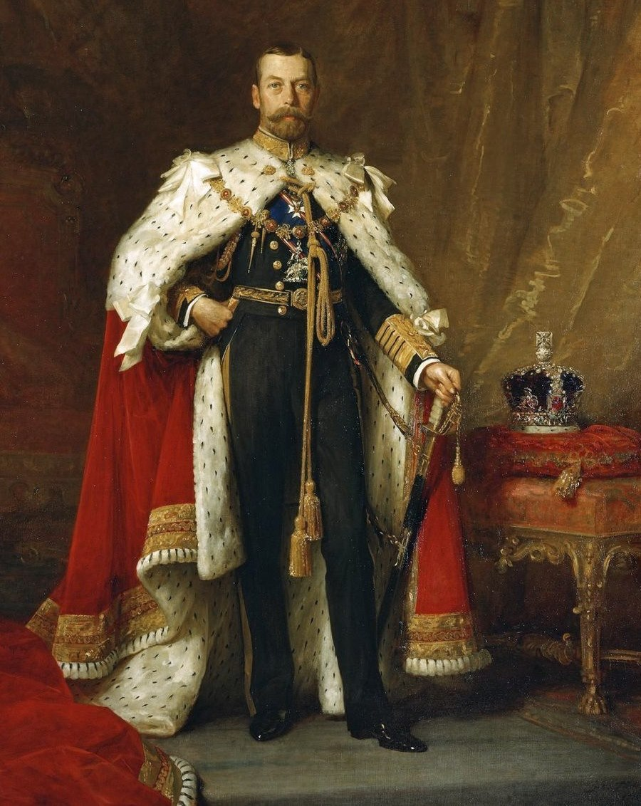 George V in coronation robes.